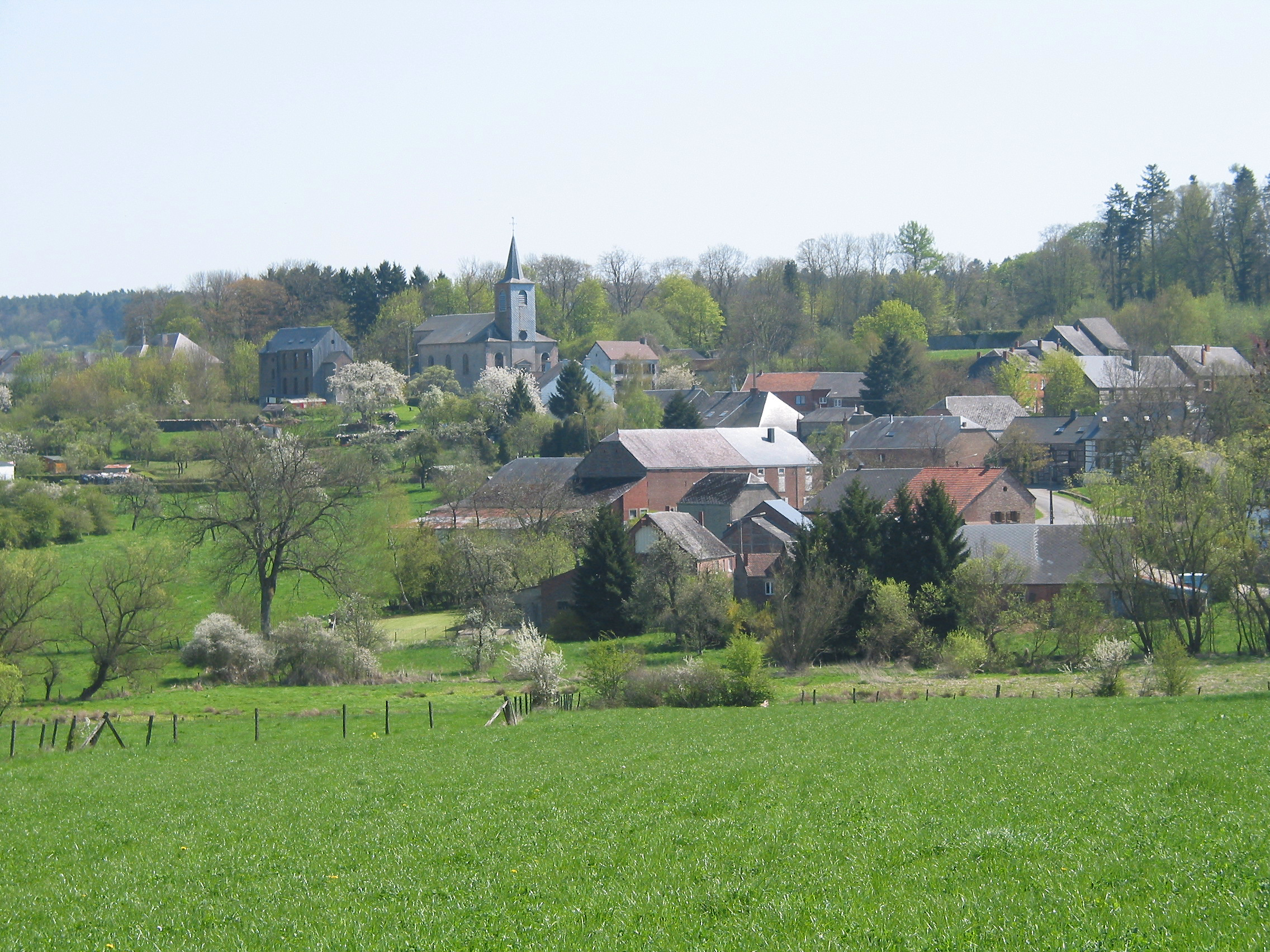 Vonêche (Belgium), view on the village..